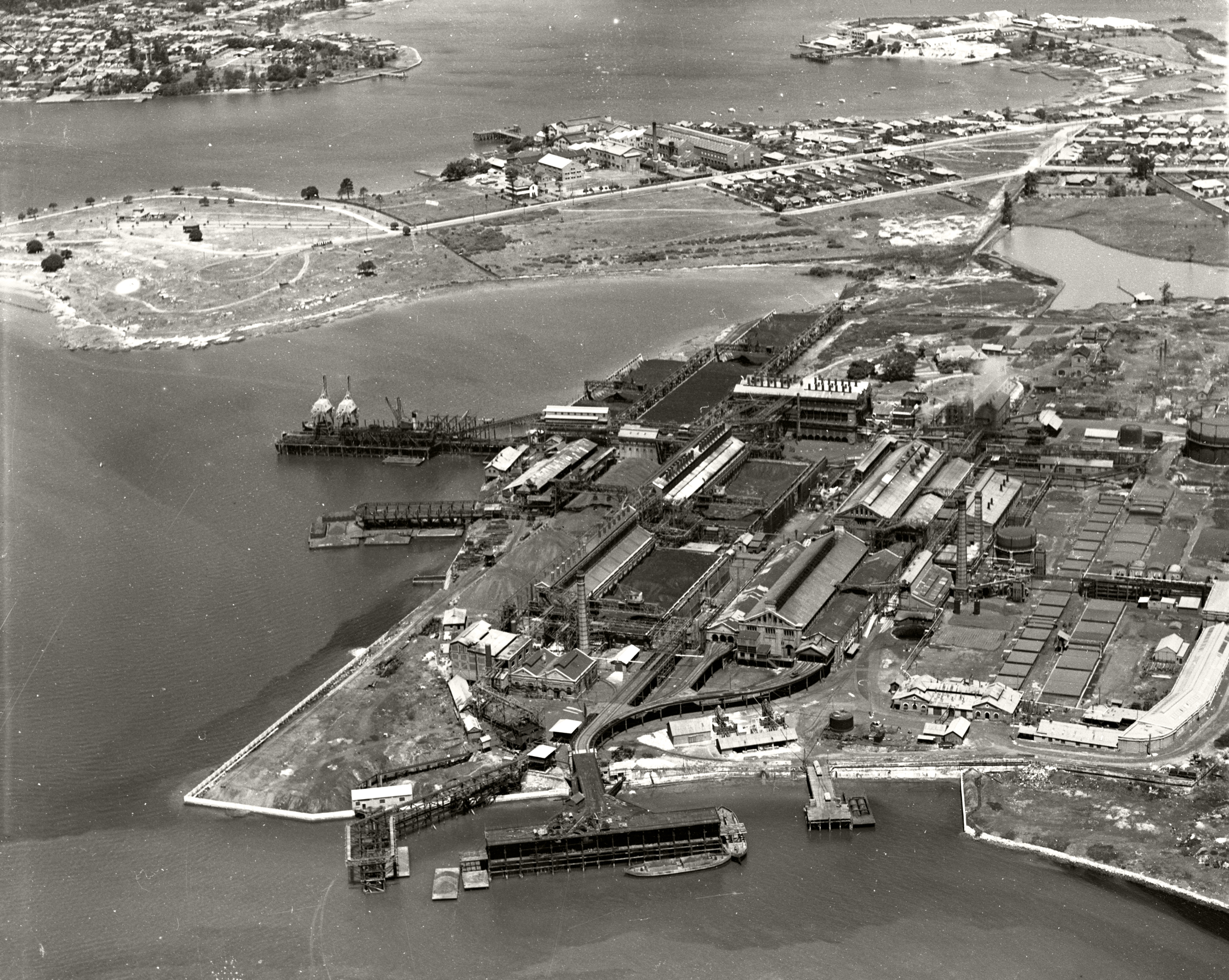 Mortlake Gas Works; RAHS [Adastra Aerial Photography Collection]